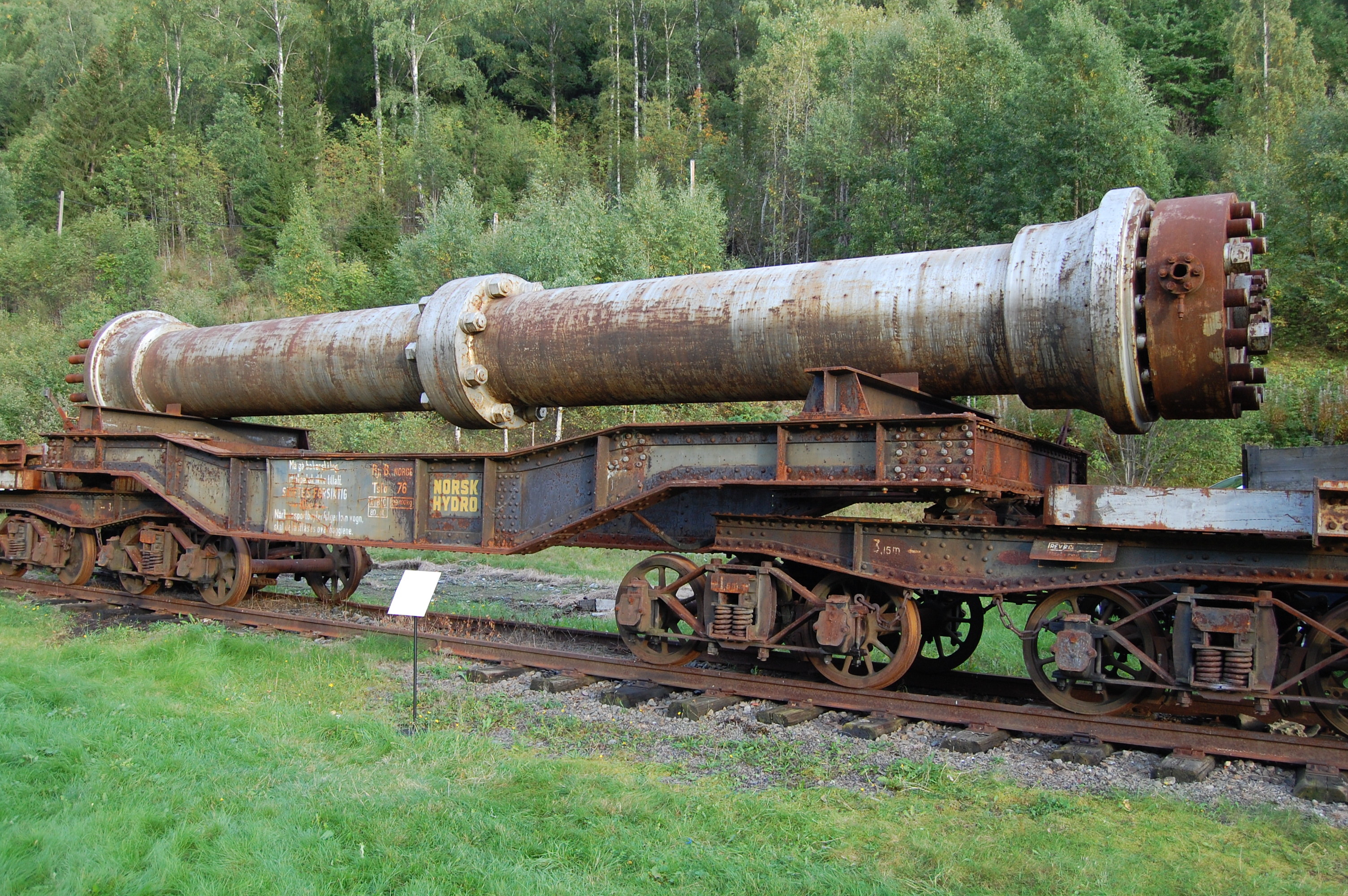 Synthesis reactor (Haber-Bosch process) on a railroad car from 1928, used for freight of transformers, conververted to freight of synthesis furnaces in connection with the phase-out of fertilizer production in Rjukan, Norway.